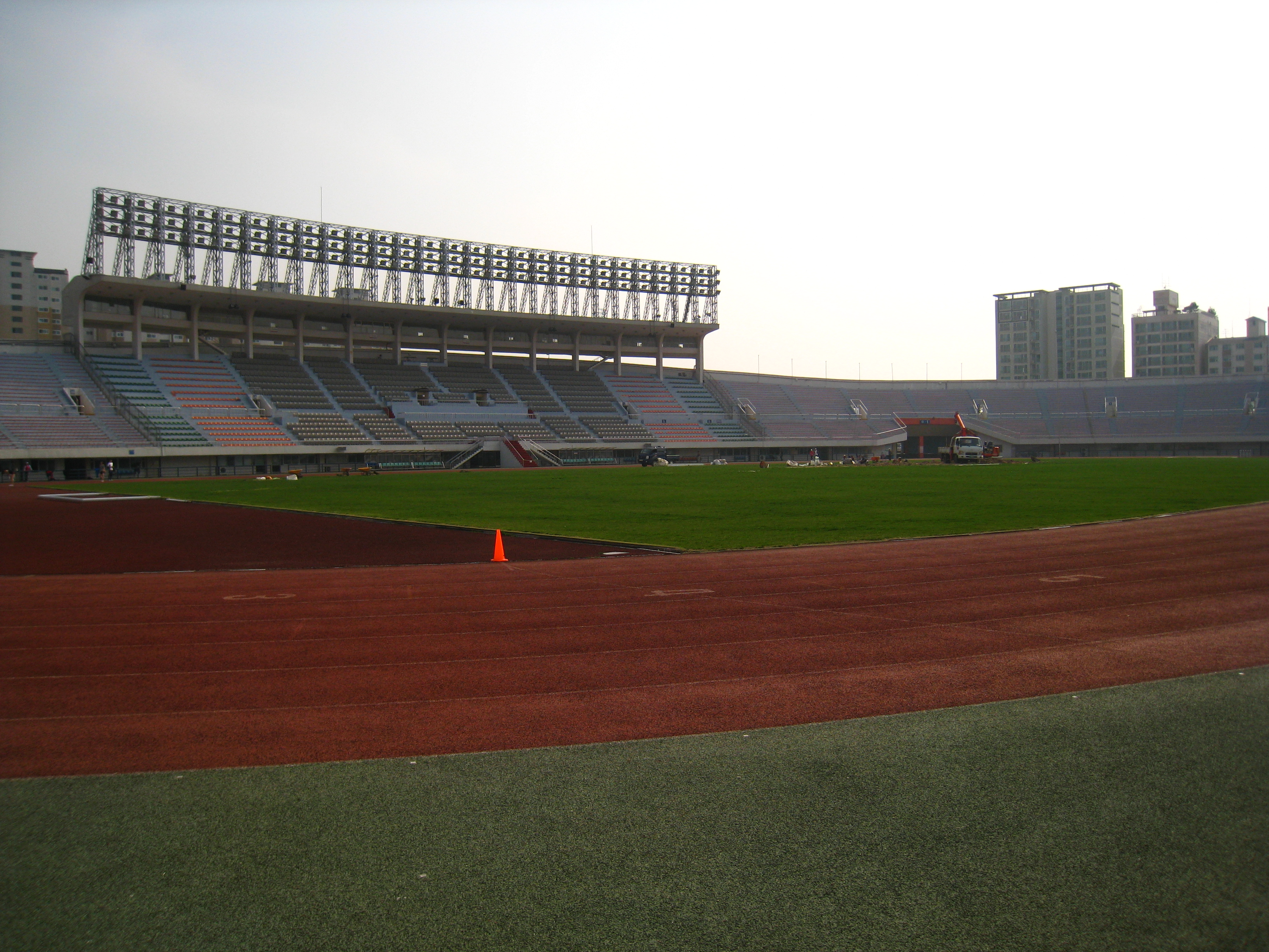 Seongnam stadium.Seongnam-dong,Seongnam-shi,South-korea.